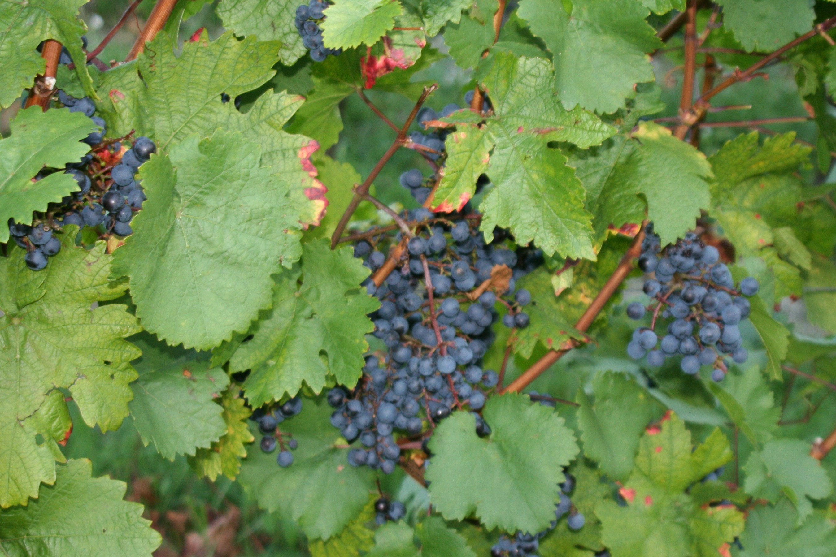 Grapes and leaves of the grape variety Cabernet Dorio, photographed at the viticulture trail on the Schemelsberg hill in Weinsberg